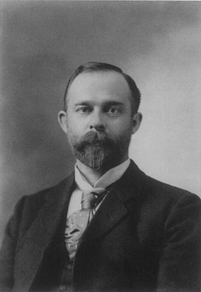 A photograph of American botanist Lucien Marcus Underwood.